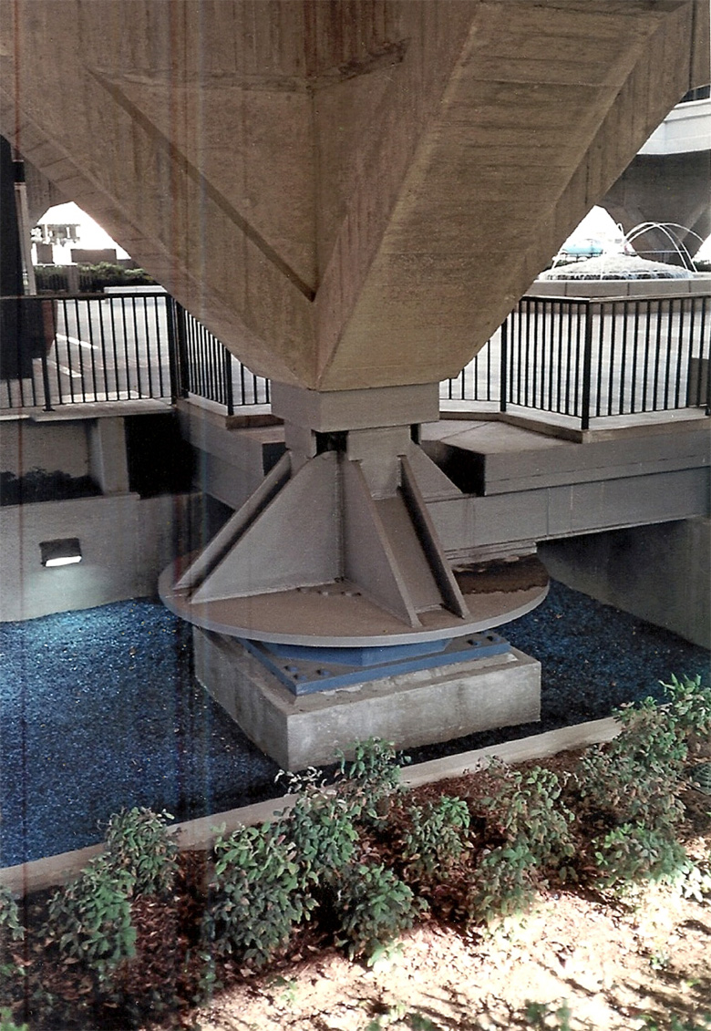 Close-up of abutment of Municipal Services Building seismically retrofitted with the help of elevated building foundation on high damping rubber bearings, City of Glendale, California [1]